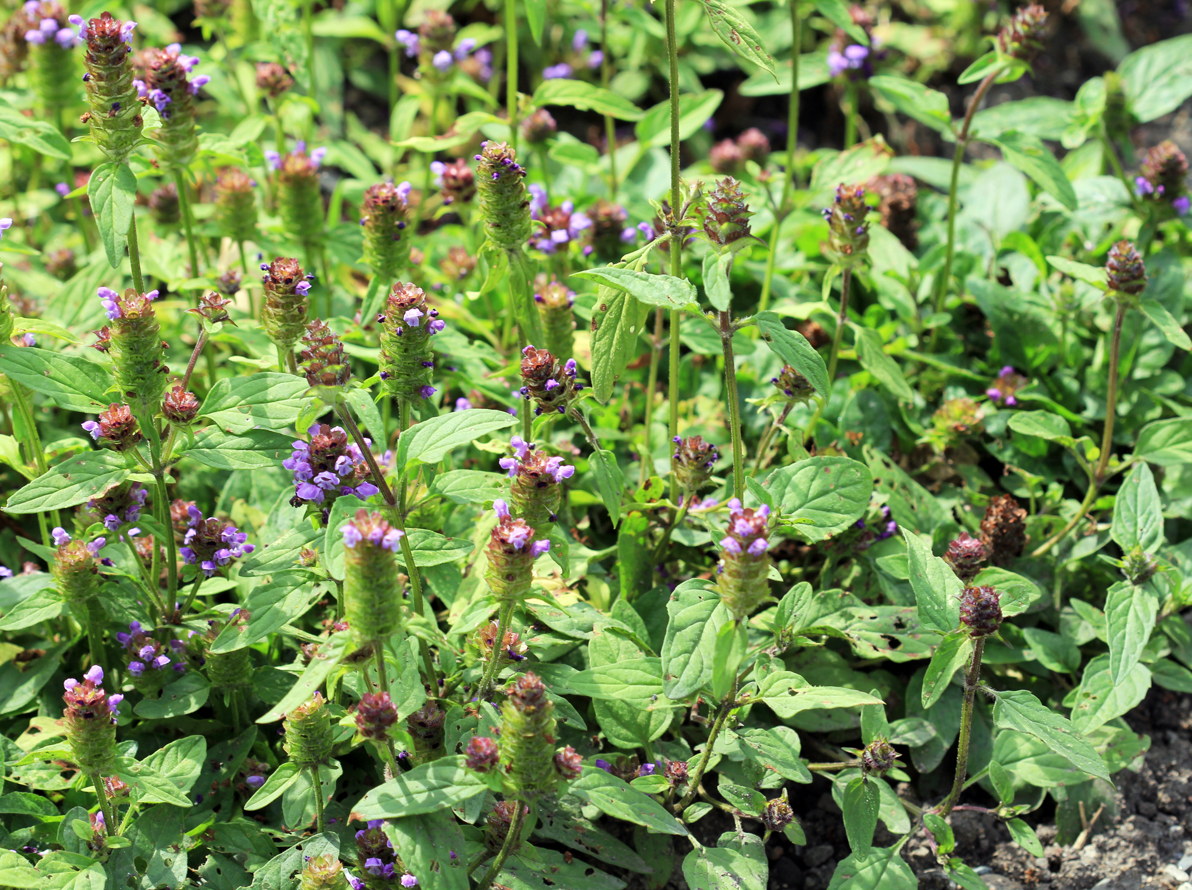 Flowering plants Prunella vulgaris from Botanical Garden of Charles University in Prague, Czech Republic